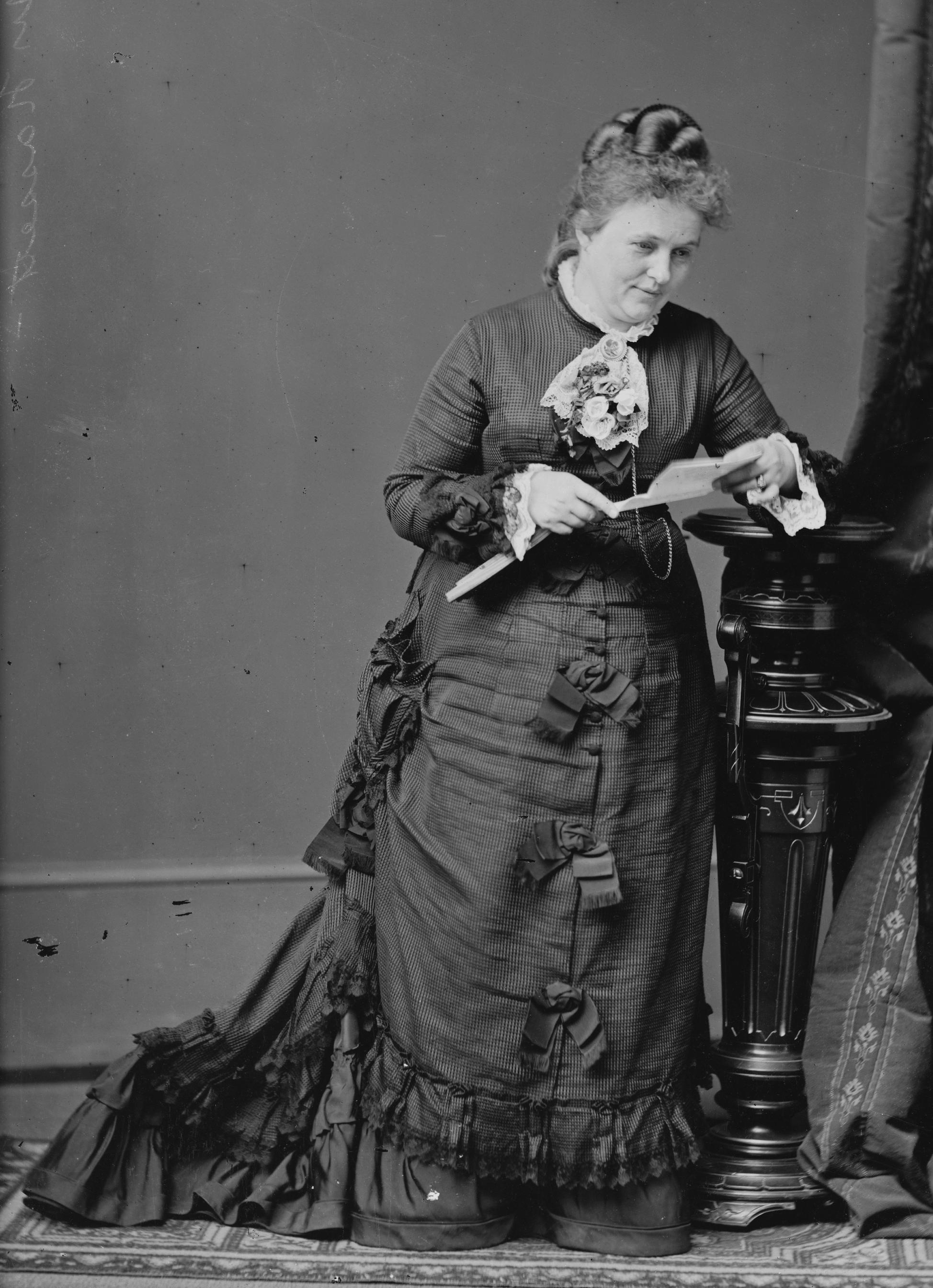 Cornelia Adele Strong Fassett. Library of Congress description: "Mrs. Cornelia Adele Fassett (Artist) Painted "The Electoral Commission" in U.S. Capitol".